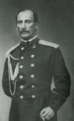 David Chavchavadze, Georgian prince and general in Russia nservice (1818-1884)